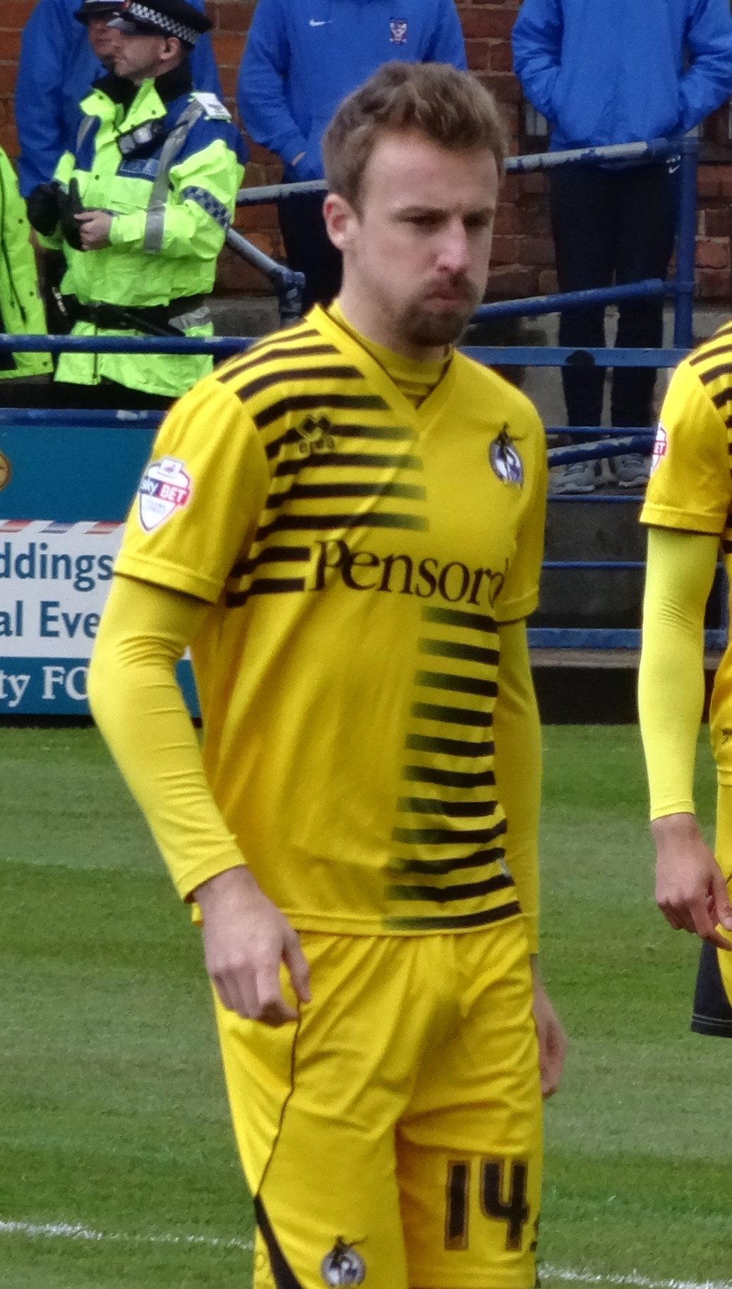 Chris Lines playing for Bristol Rovers against York City at Bootham Crescent, York on 30 April 2016